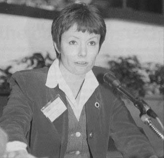 Karen Harrison addressing TUC in 1995